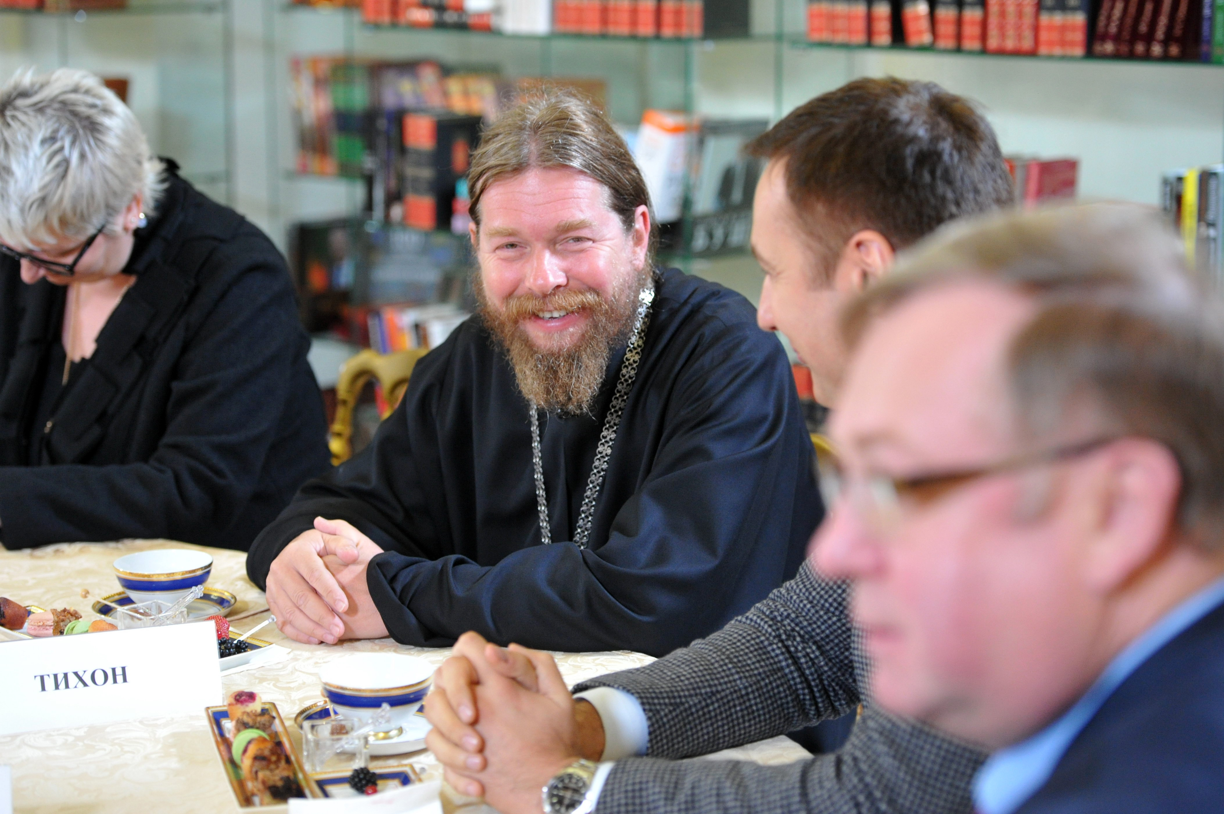 Archimandrite Tikhon, Secretary of the Patriarch’s Council for Culture and the Arts, Father Superior of Moscow’s Candlemas Monastery